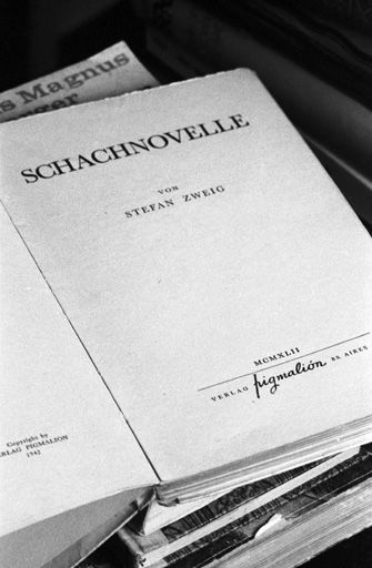 The first edition of „The Royal Game“